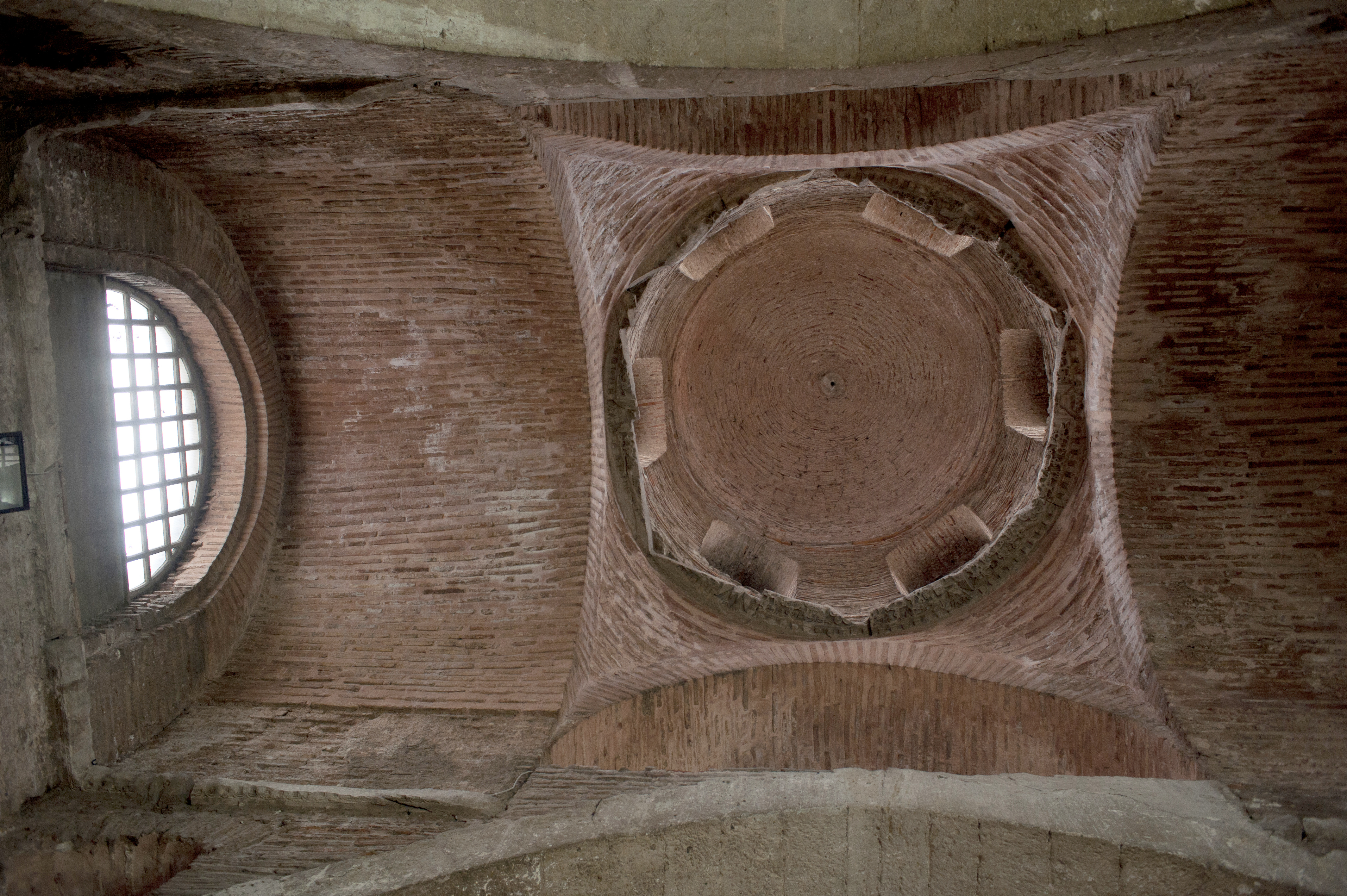 North church dome of Fenari Isa Mosque, Fatih, Istanbul, Turkey.